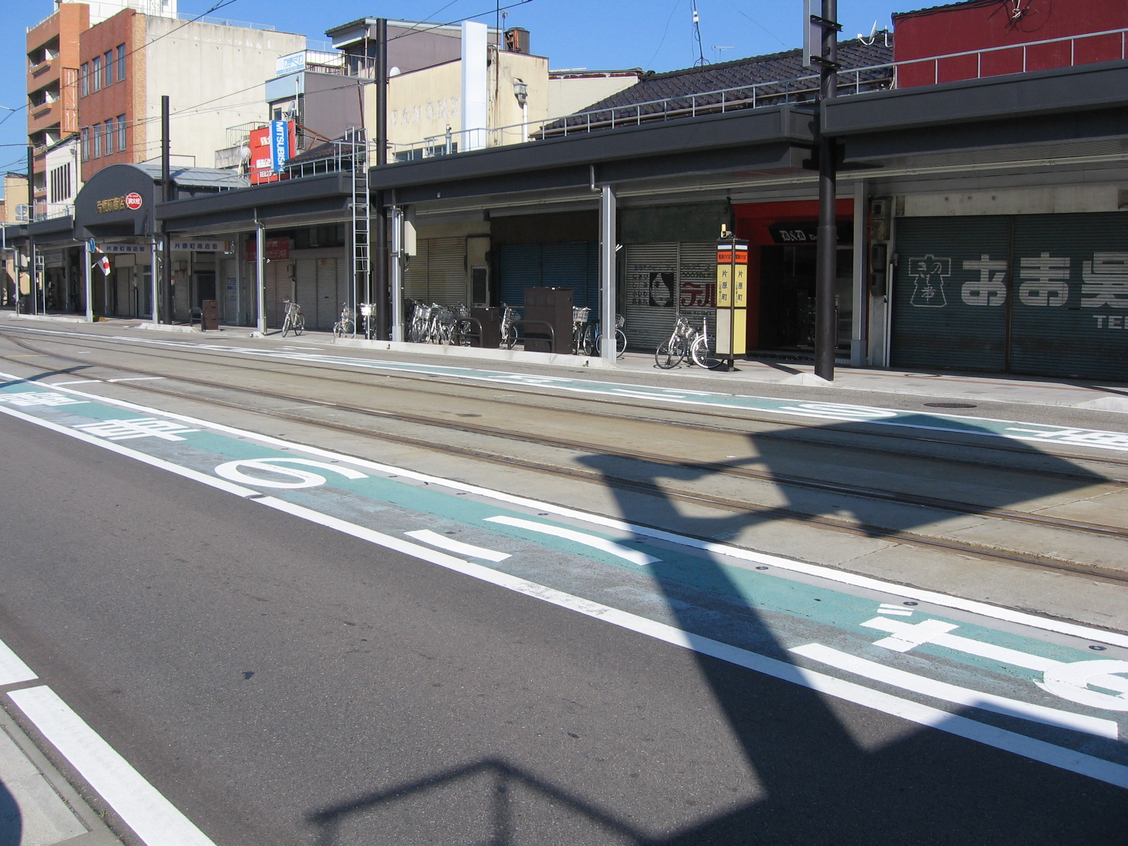 The platform of Kataharamachi Station of Takaoka Tram Line of Manyosen. In Kataharamachi, Takaoka, Toyama, Japan.